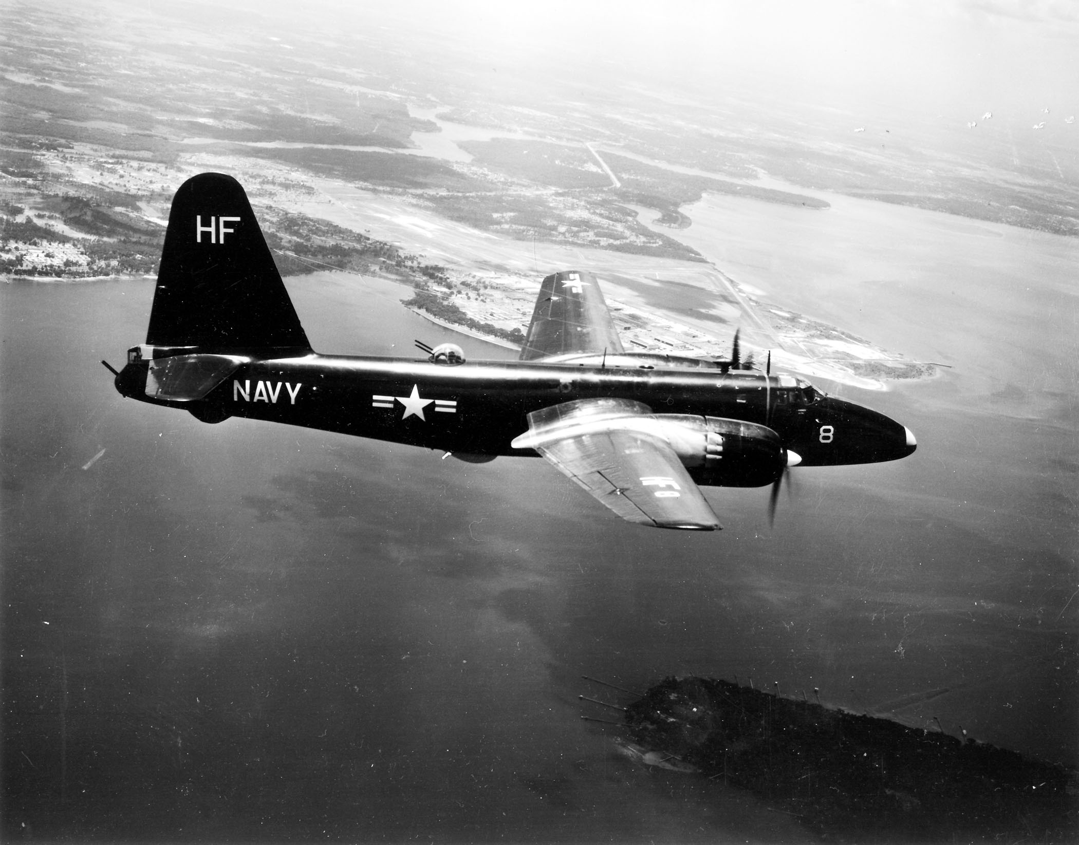 A Lockheed P2V-2 Neptune of patrol squadron VP-18 Flying Phantoms in flight over NAS Jacksonville (Florida, USA) on 3 July 1953. VP-18 had only been established on 04 Feb 1953. It was already disestablished on 10 Oct 1968.